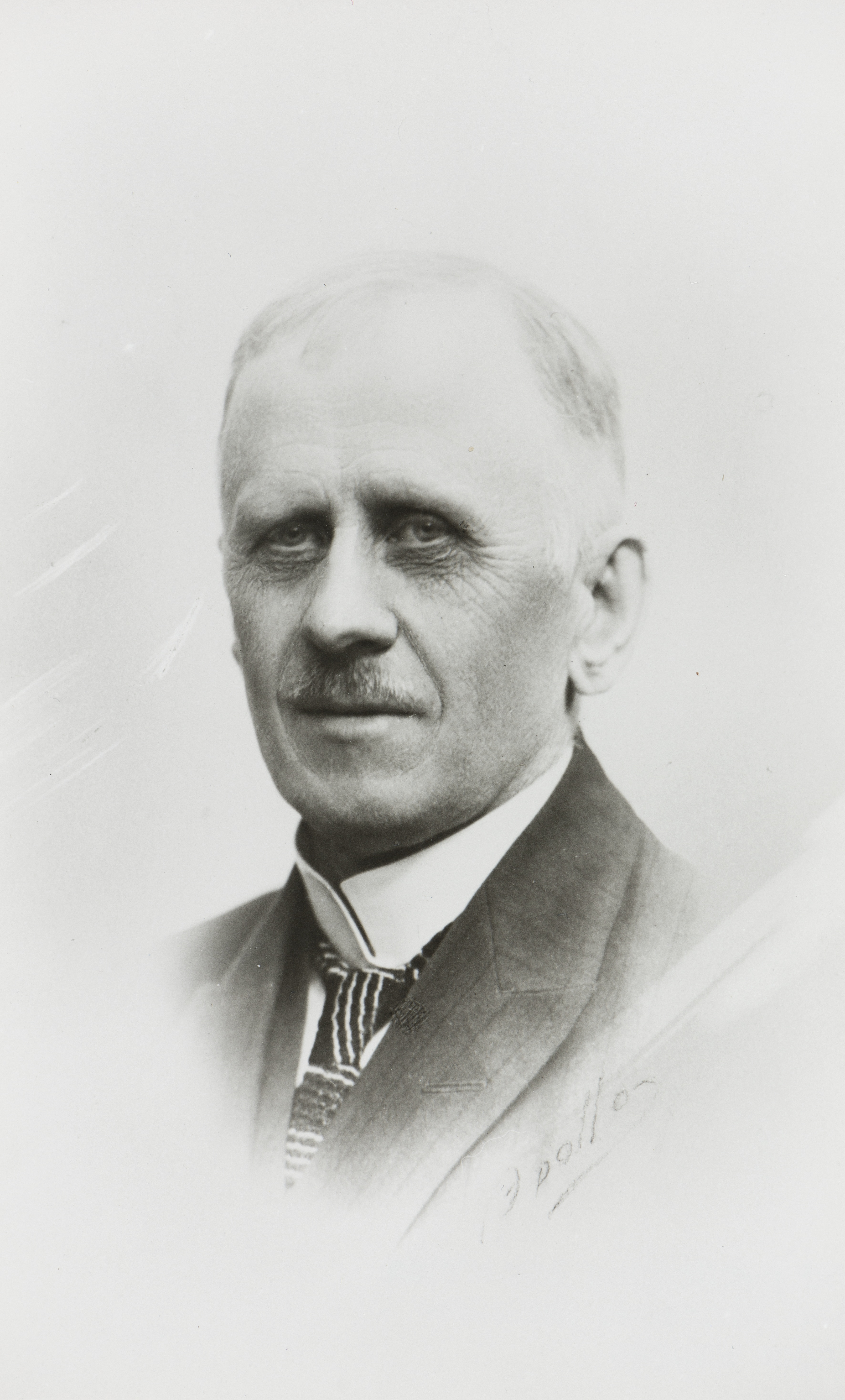 Photograph of the Finnish linguist Ralf Saxén (1868–1932).